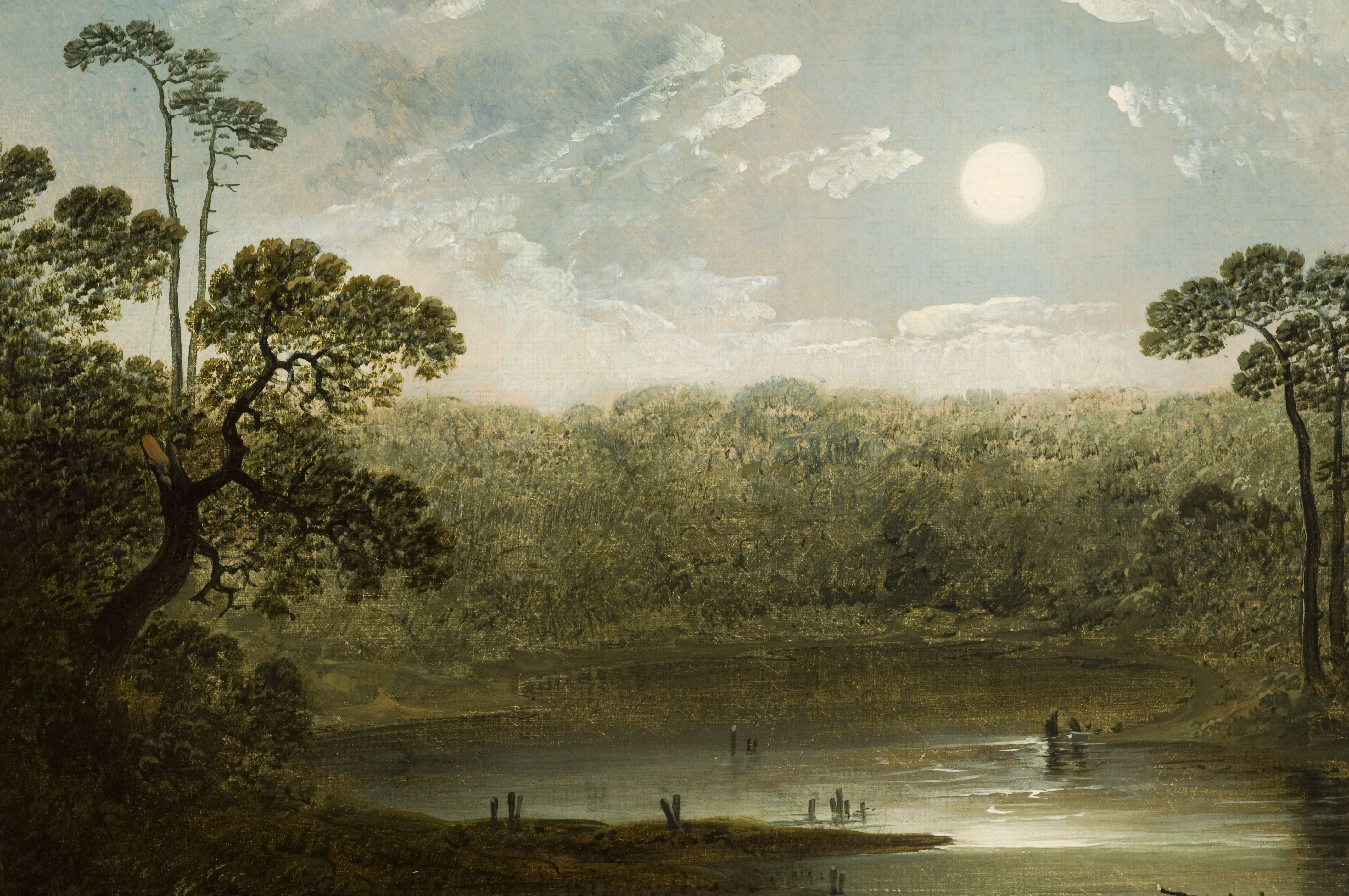 "Witch Duck Creek," oil on canvas, by the Anglo-American artist Joshua Shaw, Reynolda House Museum of American Art, Winston-Salem, North Carolina